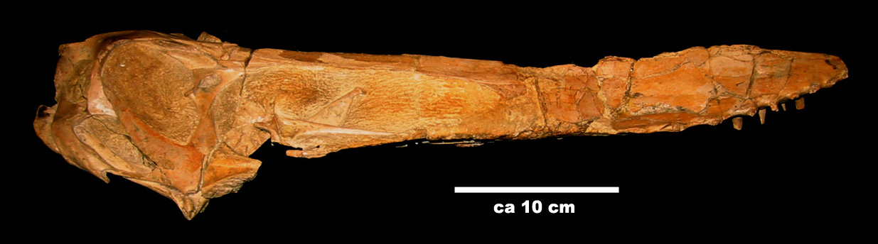 A photograph of partial specimen American Museum of Natural History (AMNH) 22555, skull without mandible, of Anhanguera sp. (formerly often assigned to Anhanguera santanae),[1] from the Early Cretaceous Romualdo Formation (former Romualdo Member of the Santana Formation) of NE Brazil in right lateral view.